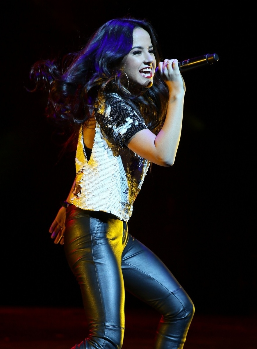 Photo by Alex Goykhman